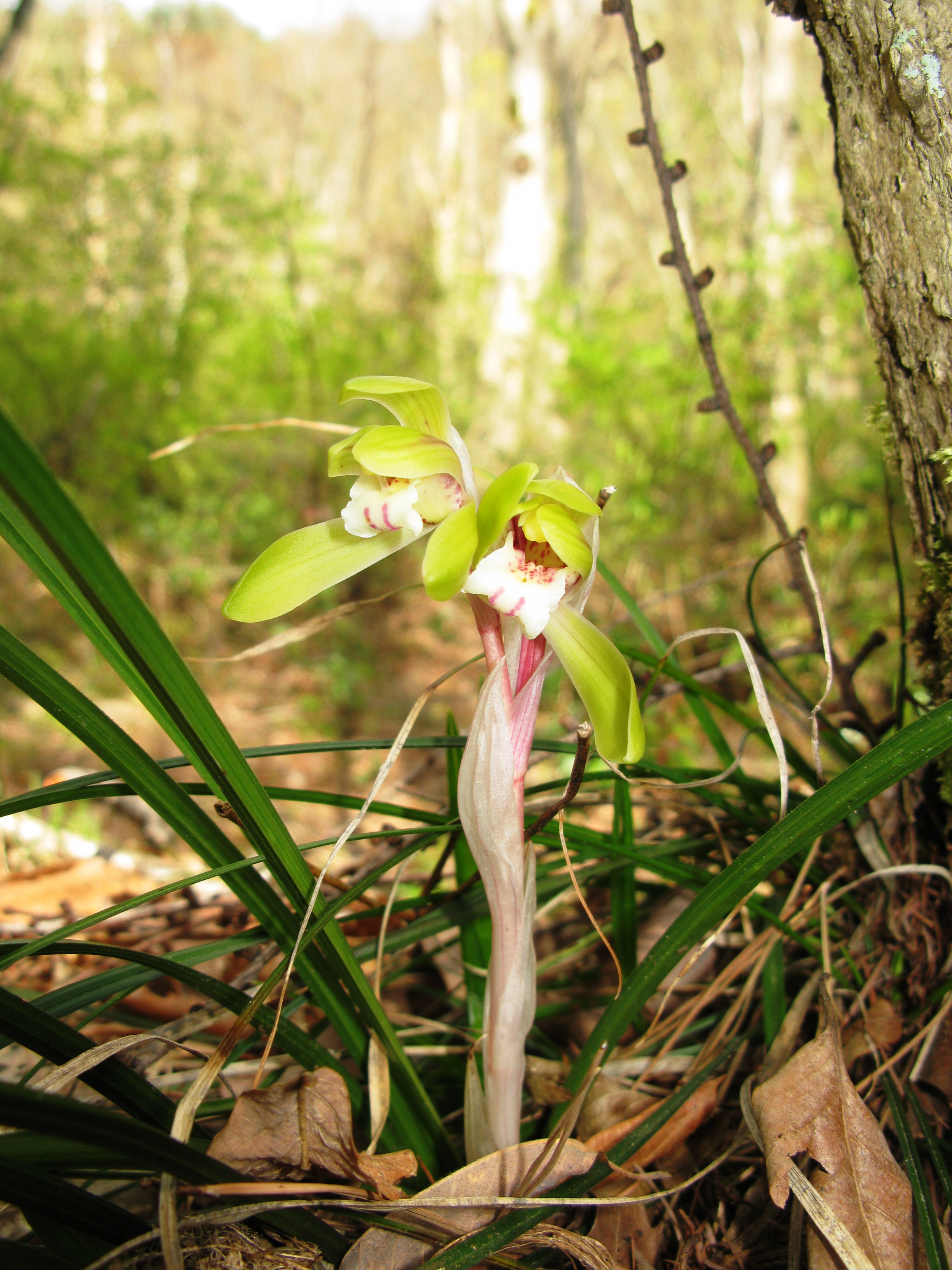 Cymbidium goeringii, Aizu area, Fukushima pref., Japan